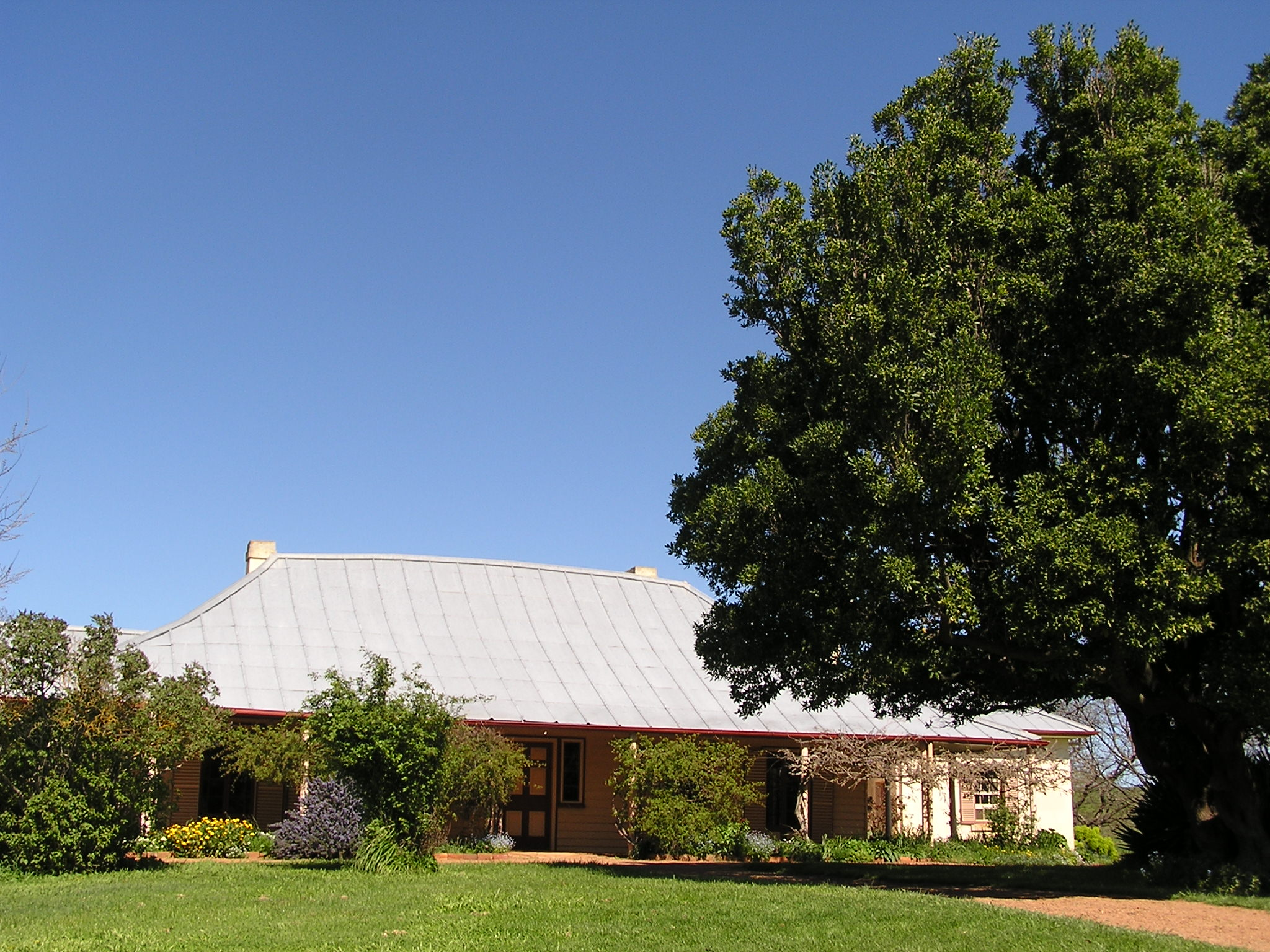 Cooma Cottage, home of Hamilton Hume at Yass, New South Wales, Australia.